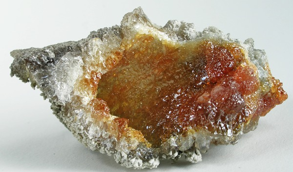 Zincite Locality: Lower Towamensing Township, Carbon County, Pennsylvania, USA (Locality at ) Size: 7.1 x 3.9 x 3.0 cm. A very fine and highly unusual specimen of a sculptural, vuggy crust of translucent slag lined with scintillating, gemmy, amber to reddish-orange, secondary zincite crystals (formed from the smelt mix in a furnace). This strange, but very beautiful specimen was recovered from New Jersey Zinc Co. Smelter in Palmerton, Pennsylvania and is probably old-time material. Very seldom available.